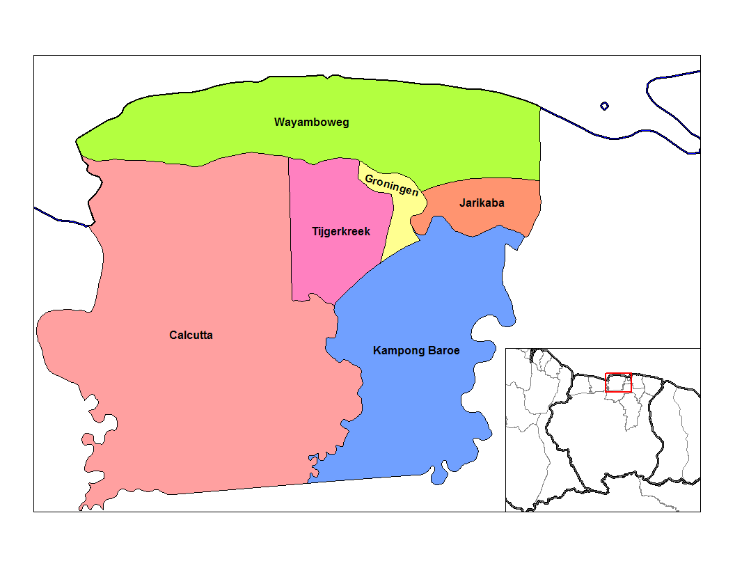 Map of the resorts of the Saramacca district in Suriname. Created by Rarelibra 22:50, 27 December 2006 (UTC) for public domain use, using MapInfo Professional v8.5 and various mapping resources. Rarelibra 22:50, 27 December 2006 (UTC)